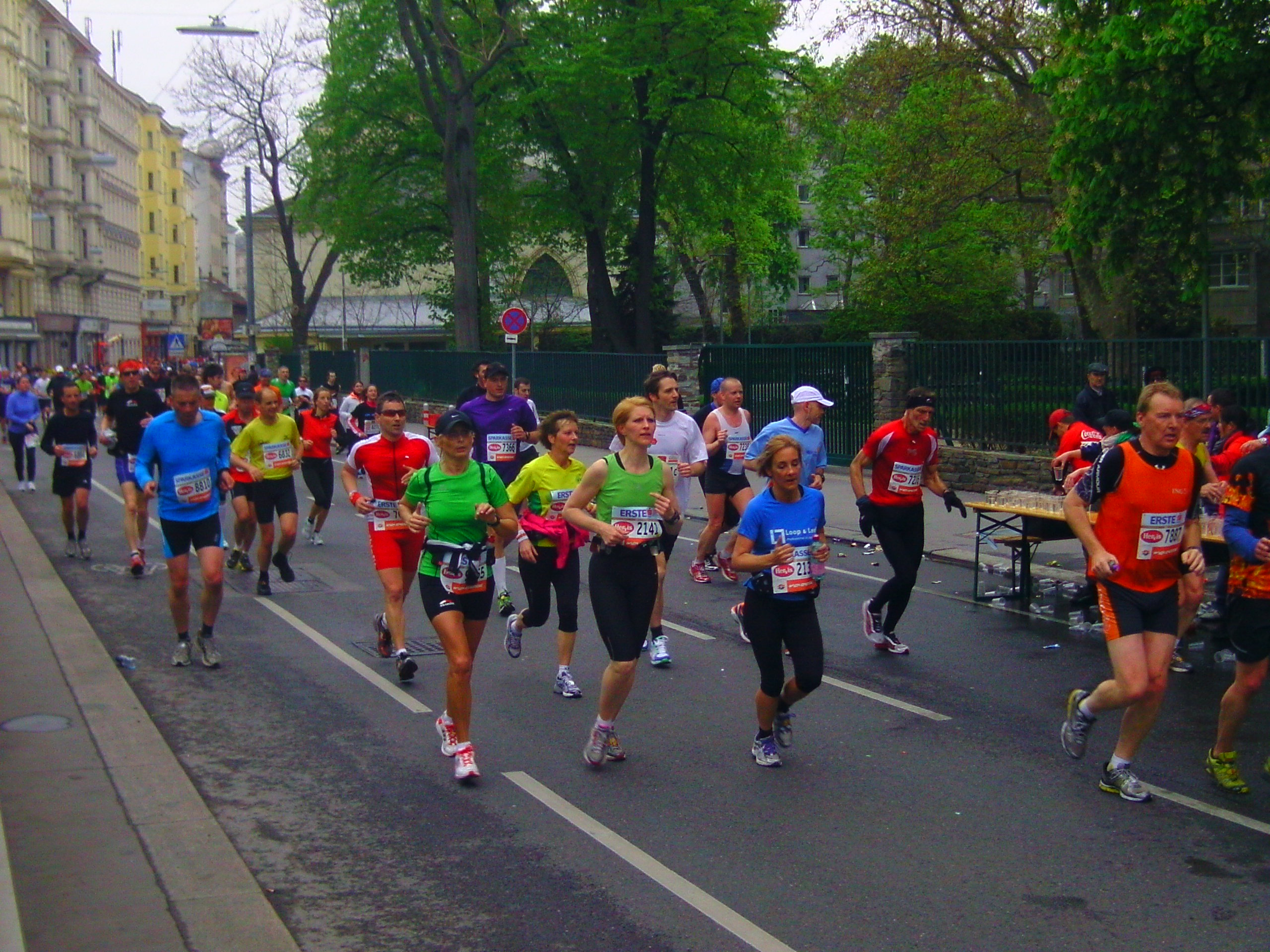 Vienna City Marathon 2012